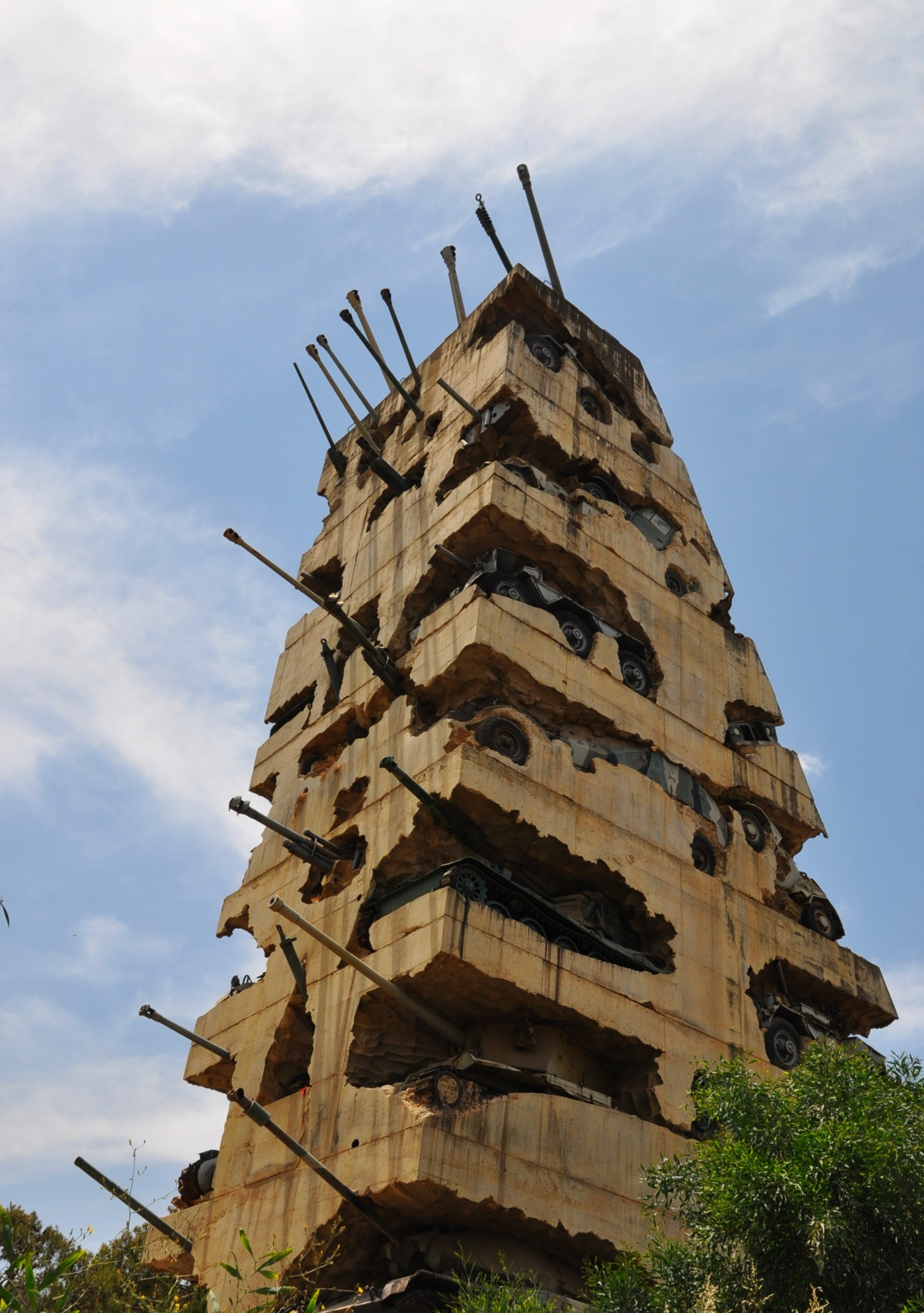 Description by author: "Tank Monument to Peace Commemorating the End of the 1975-1990 Civil War, Lebanon". The photo uploaded to Commons is the original from Flickr, no changes were made. The monument is a creation of the artist Arman.